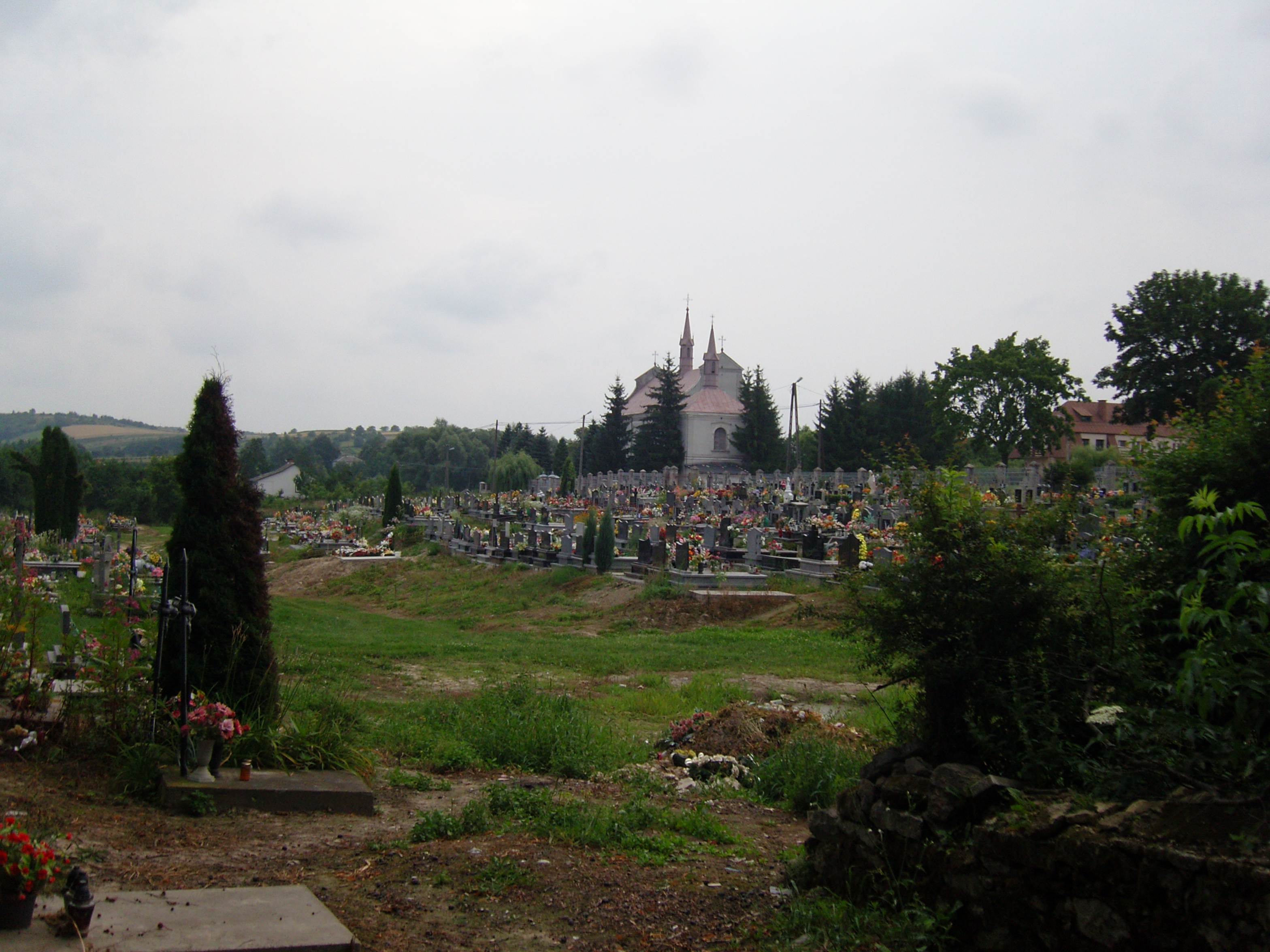 Church in Radzięcin (a view from old cemetery